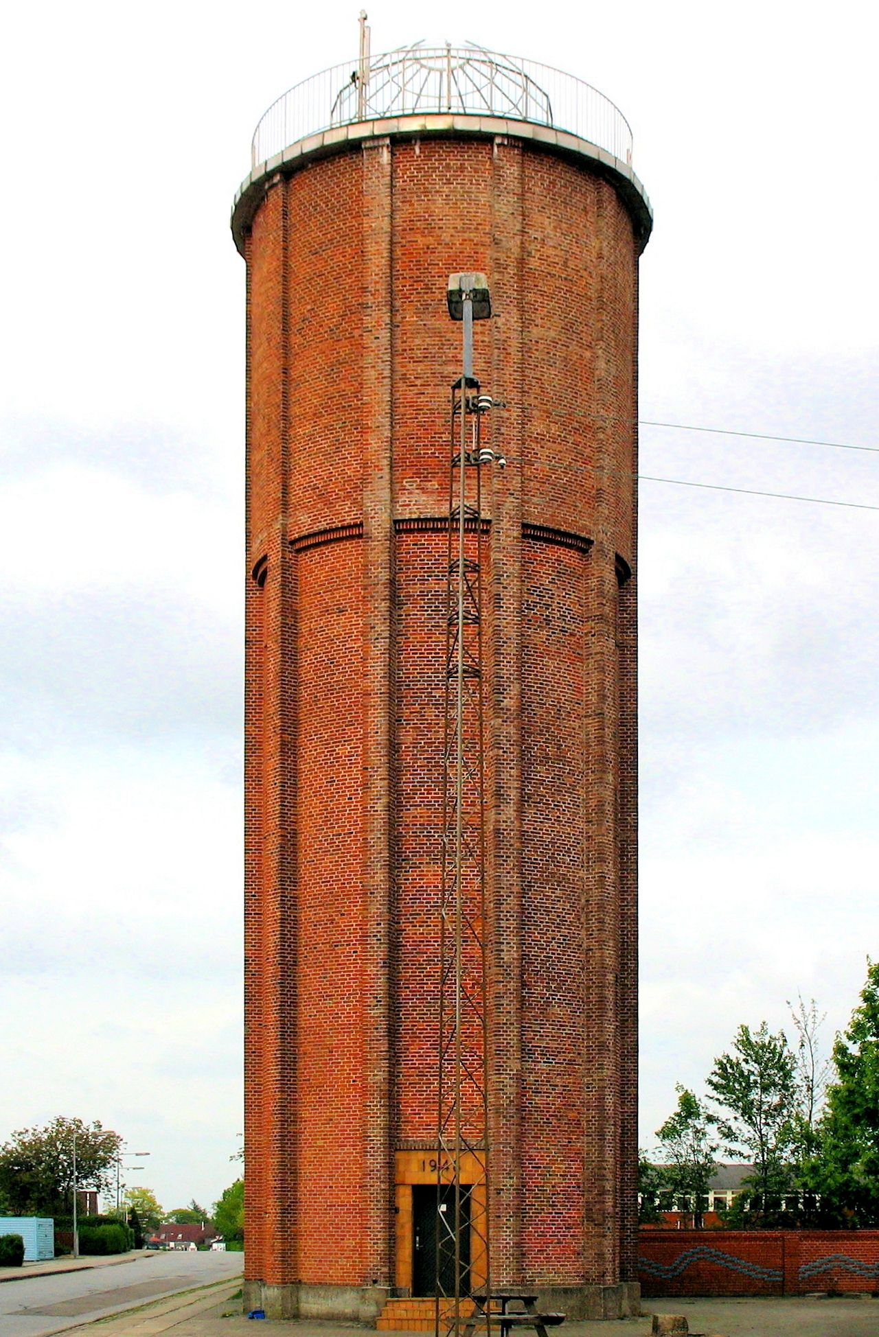 The water tower in Ikast, Denmark